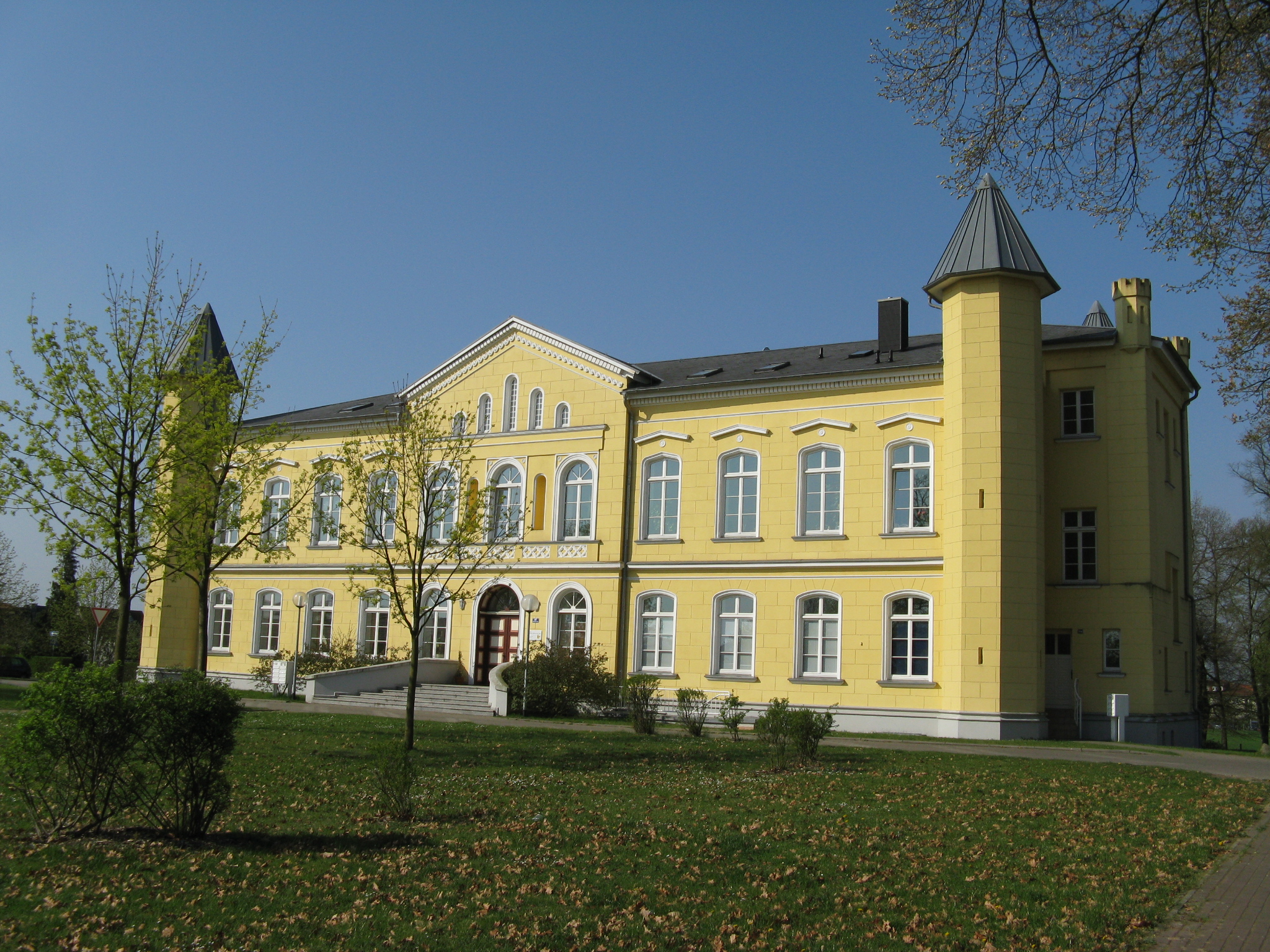 Manor house in Leezen, district Ludwigslust-Parchim, Mecklenburg-Vorpommern, Germany